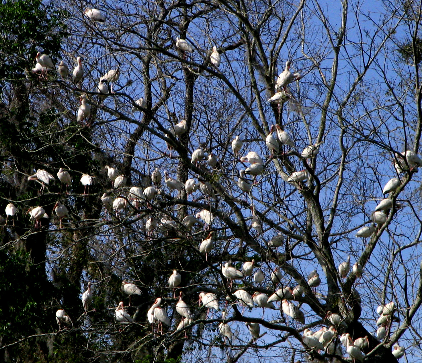 The sociable American White Ibis in a tree on the Saint Johns River.